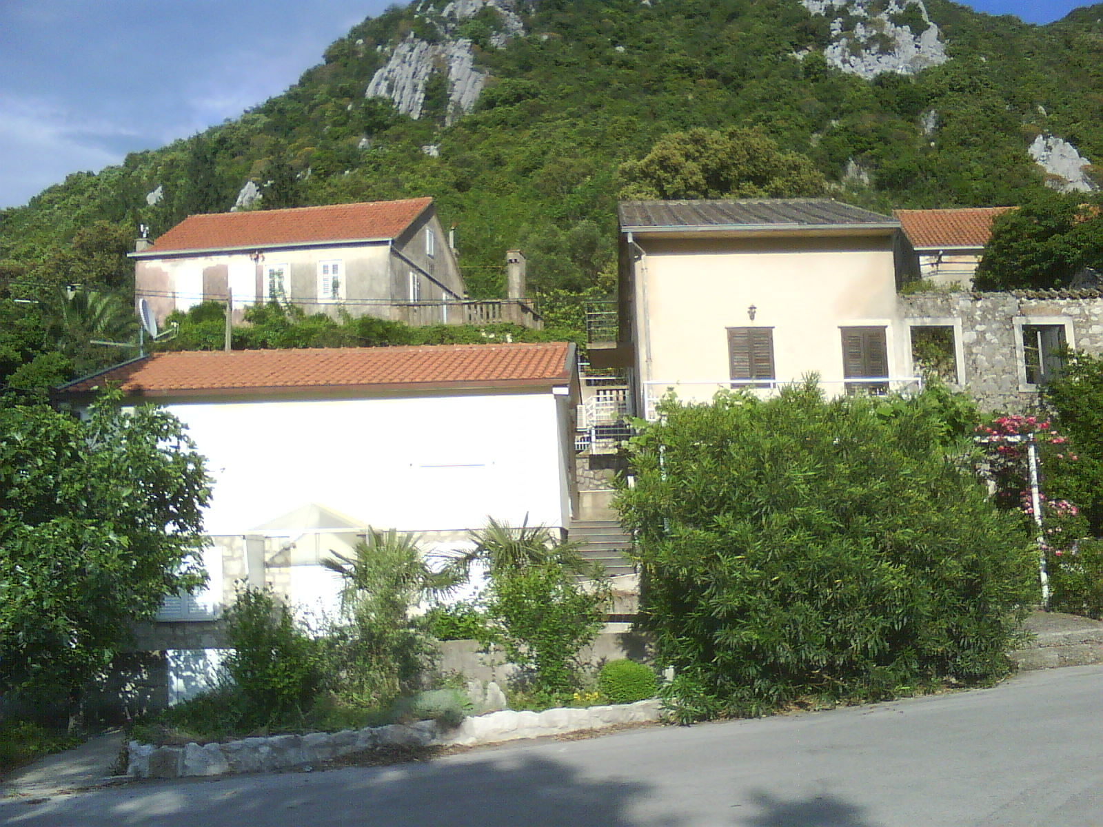 Houses in Peliška Duba, a village in Trpanj municipality - OpenStreetMap (Info)